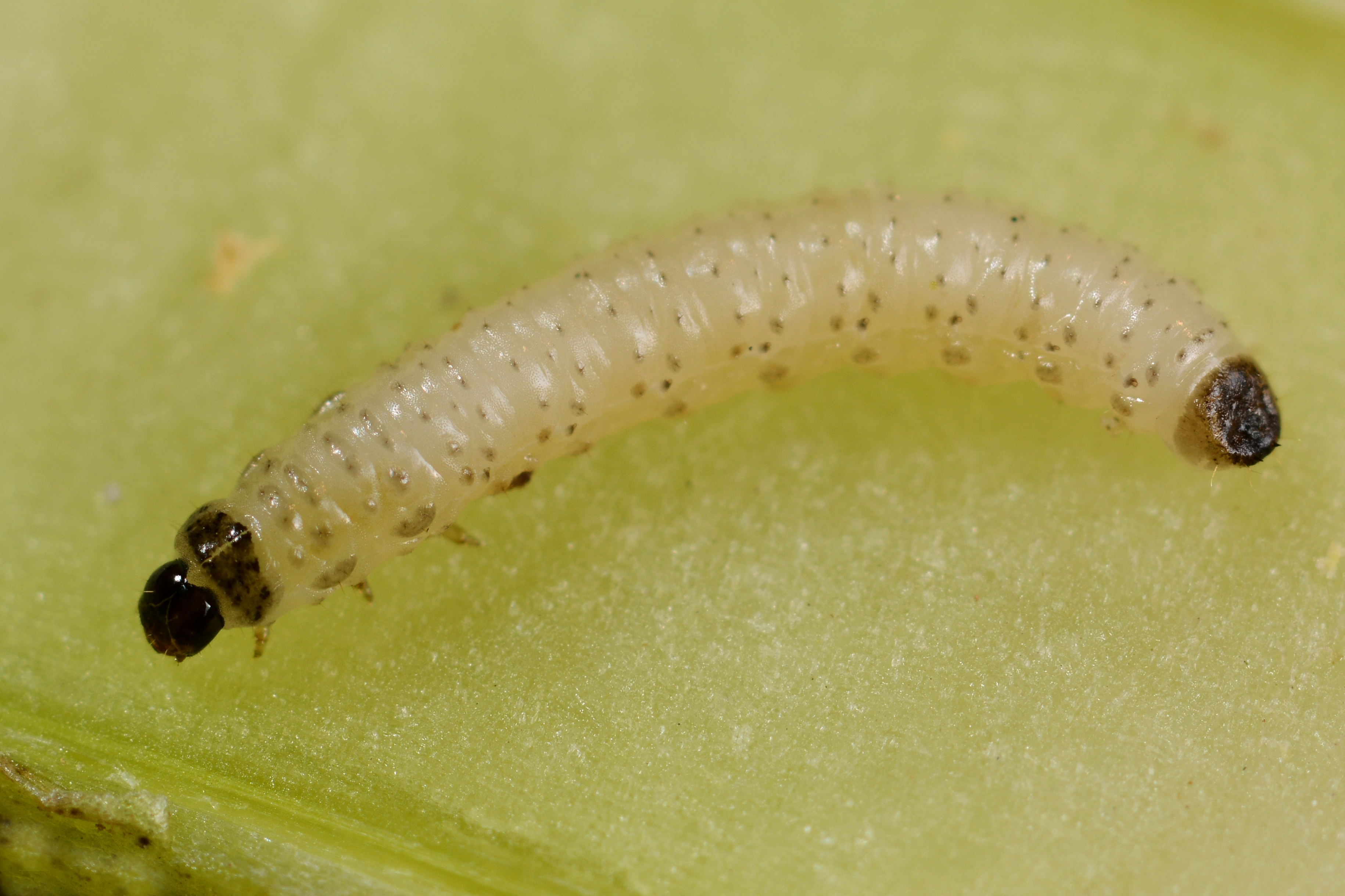 Psylliodes chrysocephala (Coleoptera Chrysomelidae) larva on oilseed rape (Brassica napus)